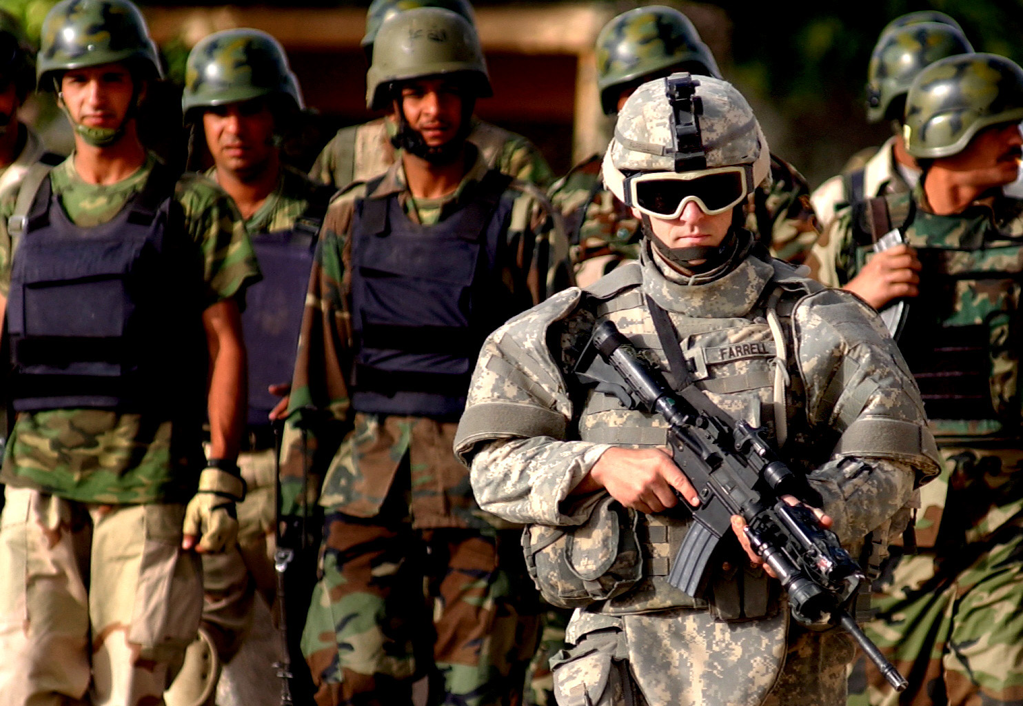 Capt. Geoffrey Farrell of the Special Police Transition Team attached to the 101st Airborne Division leads a platoon of Iraqi Police Officers from the 3rd Battalion, 3rd Brigade, 1st National Police Division to a live fire range being held at Patrol Base Olson in Samarra, Iraq to zero their AK-47 rifles. (Released)